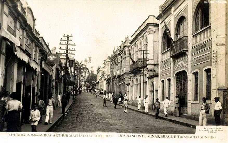 rua artur machado rua do comercio 1930